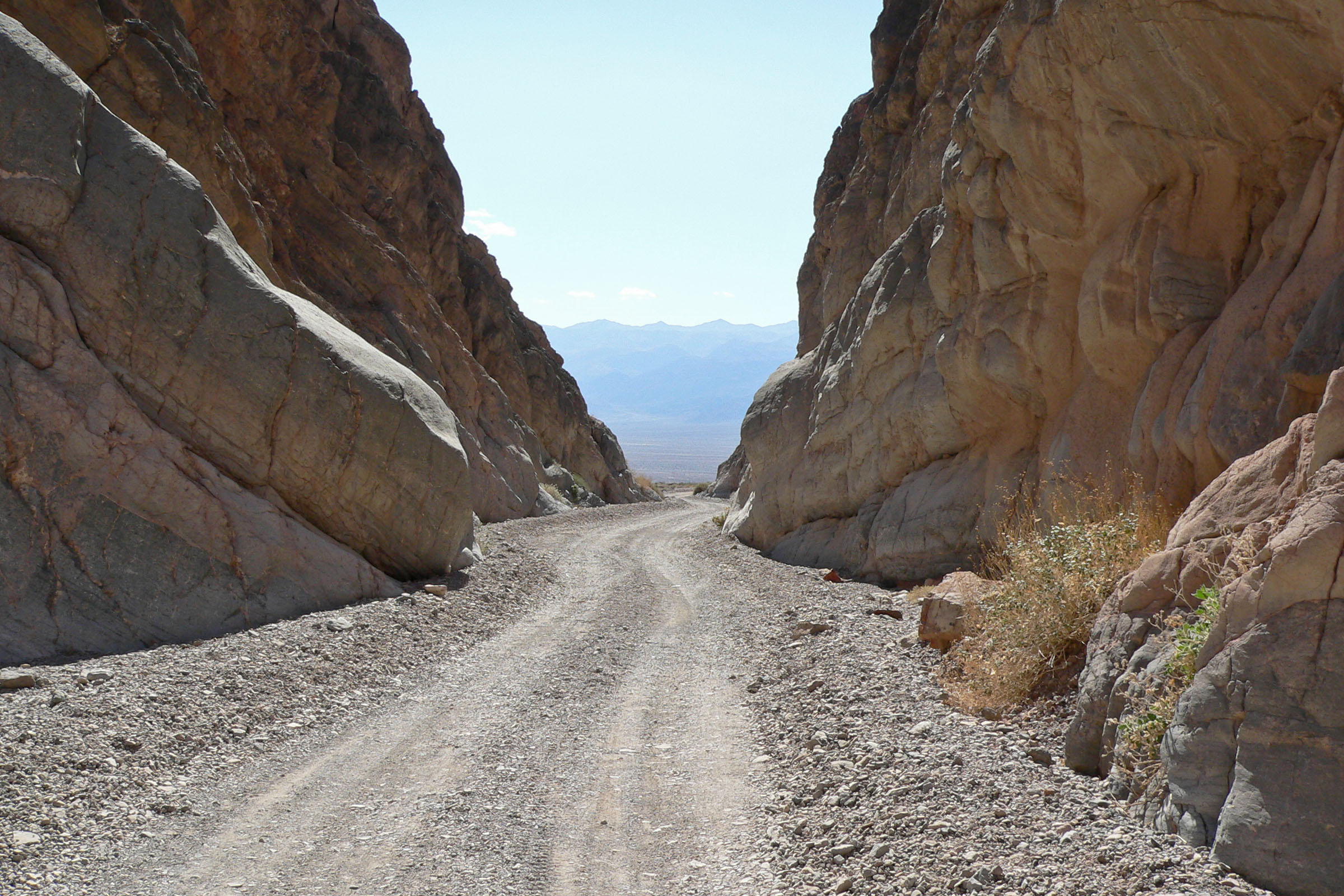 Titus Canyon looking out into Death Valley, California